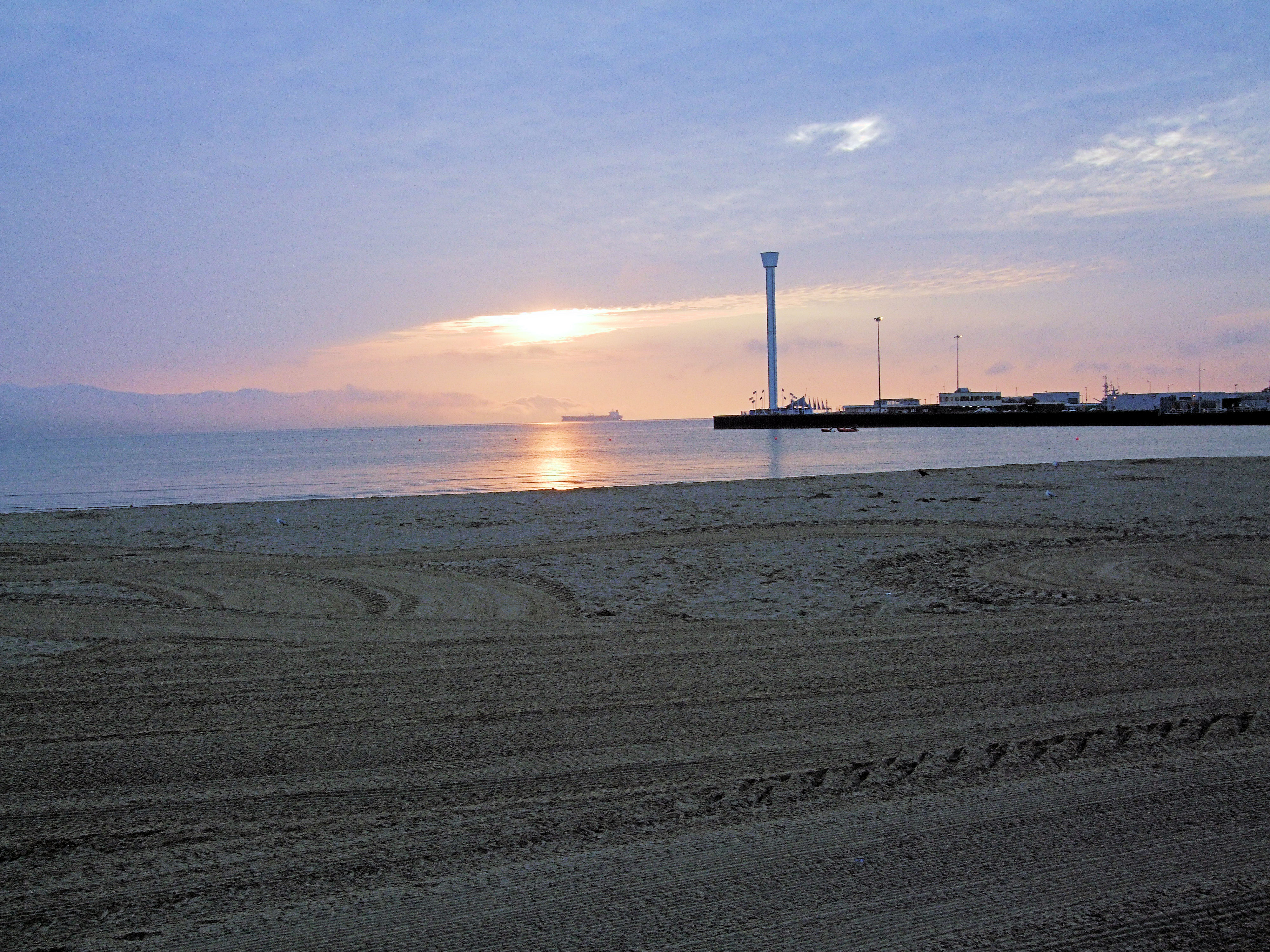 Weymouth Sea Life Tower, Dorset, England.